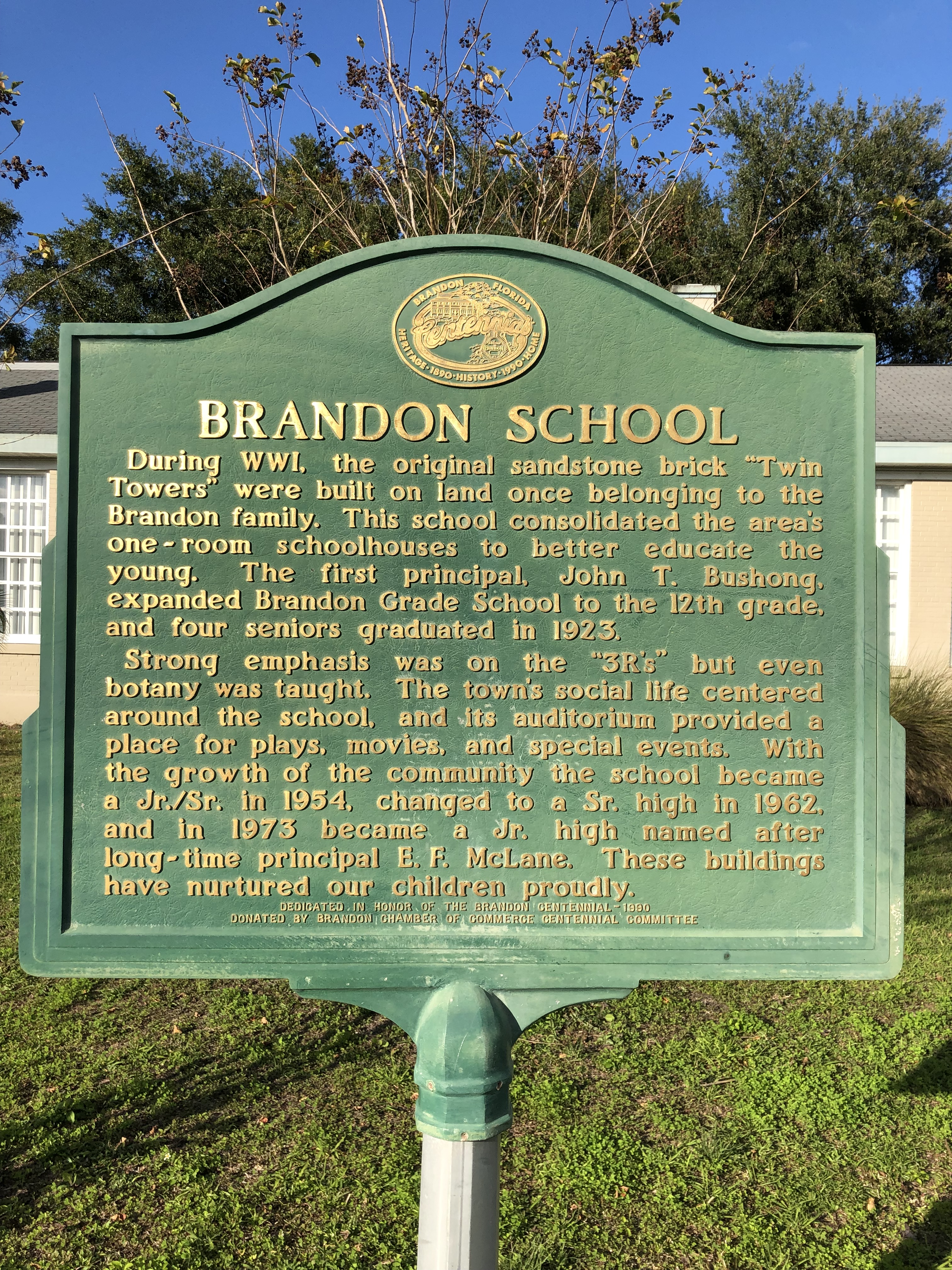 Historical marker of the first High School in Brandon, Florida